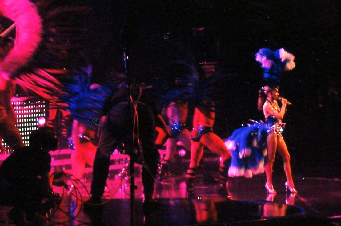 Kylie Minogue - Earls Court 060505 (1)